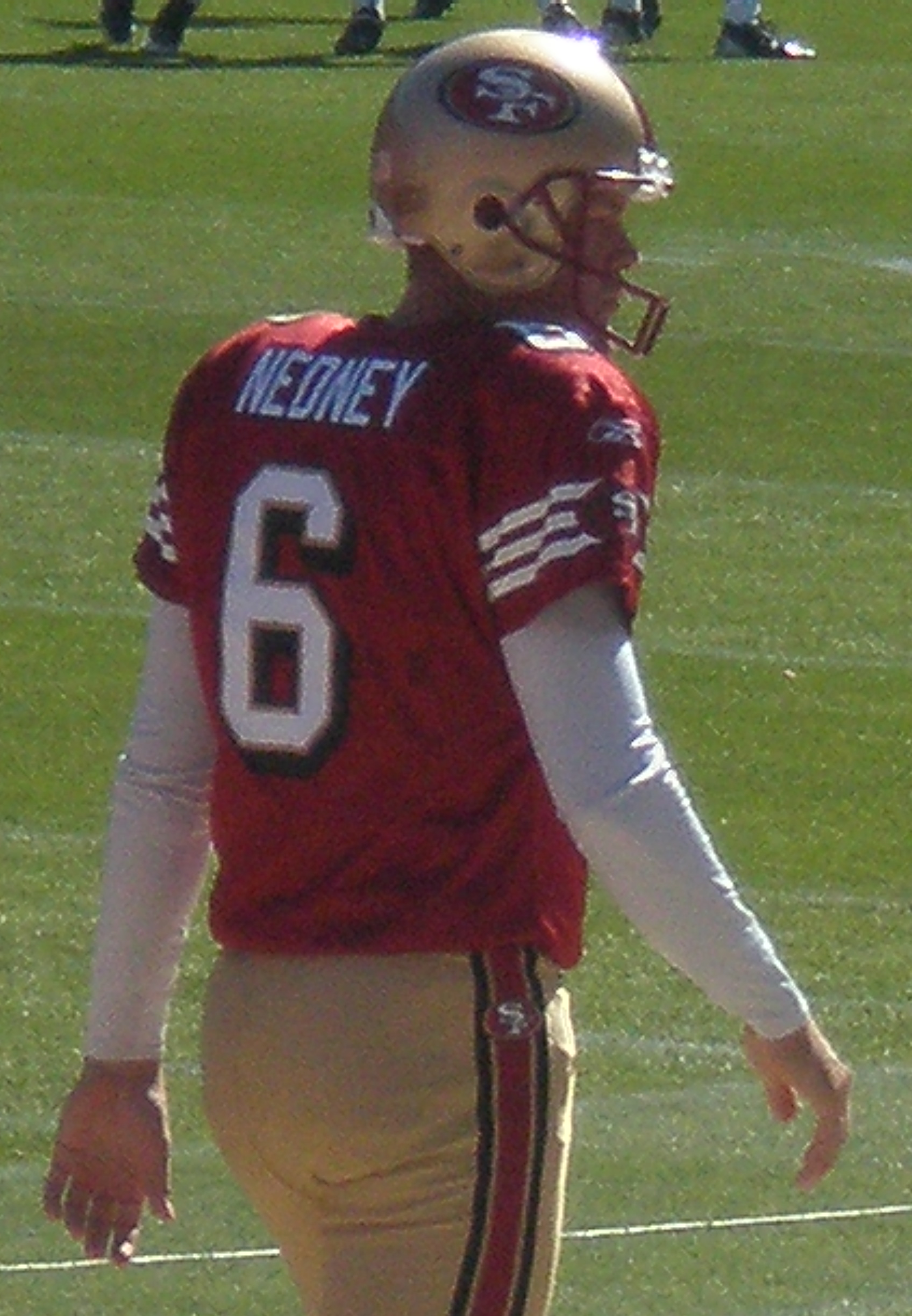 San Francisco 49ers kicker Joe Nedney on the sidelines of Bill Walsh Field at Candlestick Park prior to a regular season game against the Philadelphia Eagles. The Eagles won 40-26.